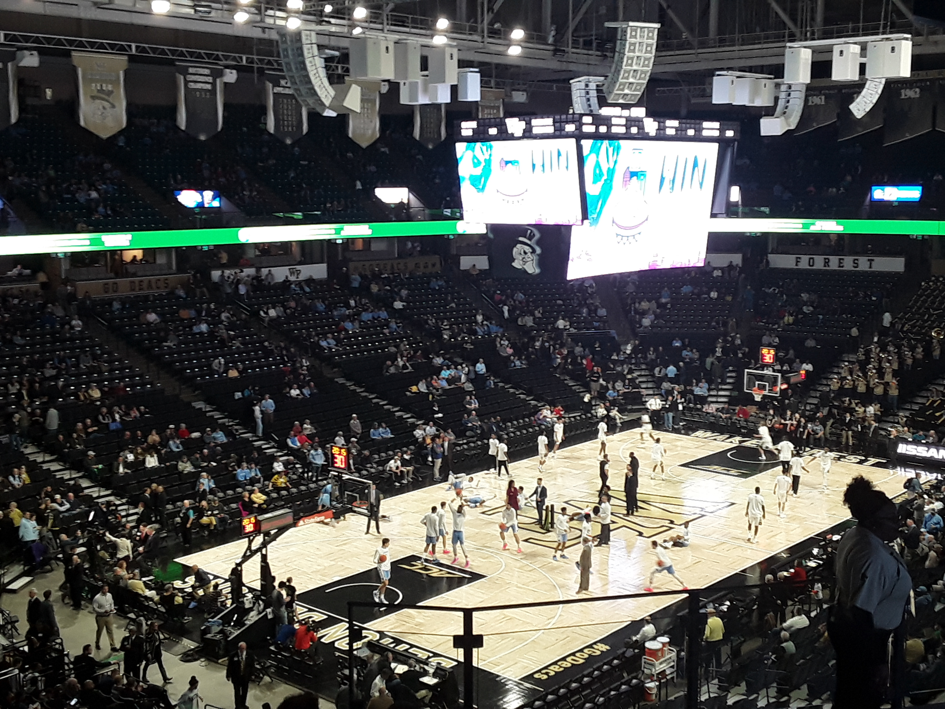 Inside of Lawrence Joel Veterans Memorial Coliseum in Winston-Salem, North Carolina, home of Wake Forest Demon Deacons basketball